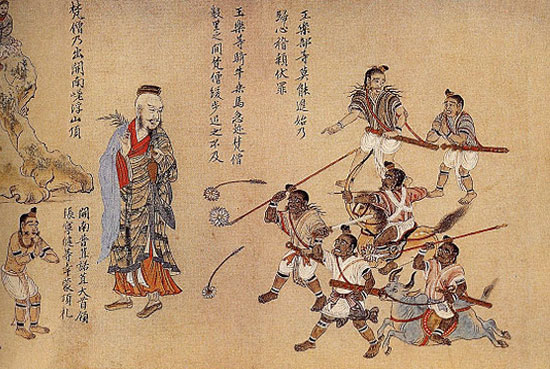 Extract of the Nanzhao Tujuan scroll (9th—10th century, 31.5cm x 5.8m) held at the Yurinkan Museum (有鄰館) in Kyoto, Japan.